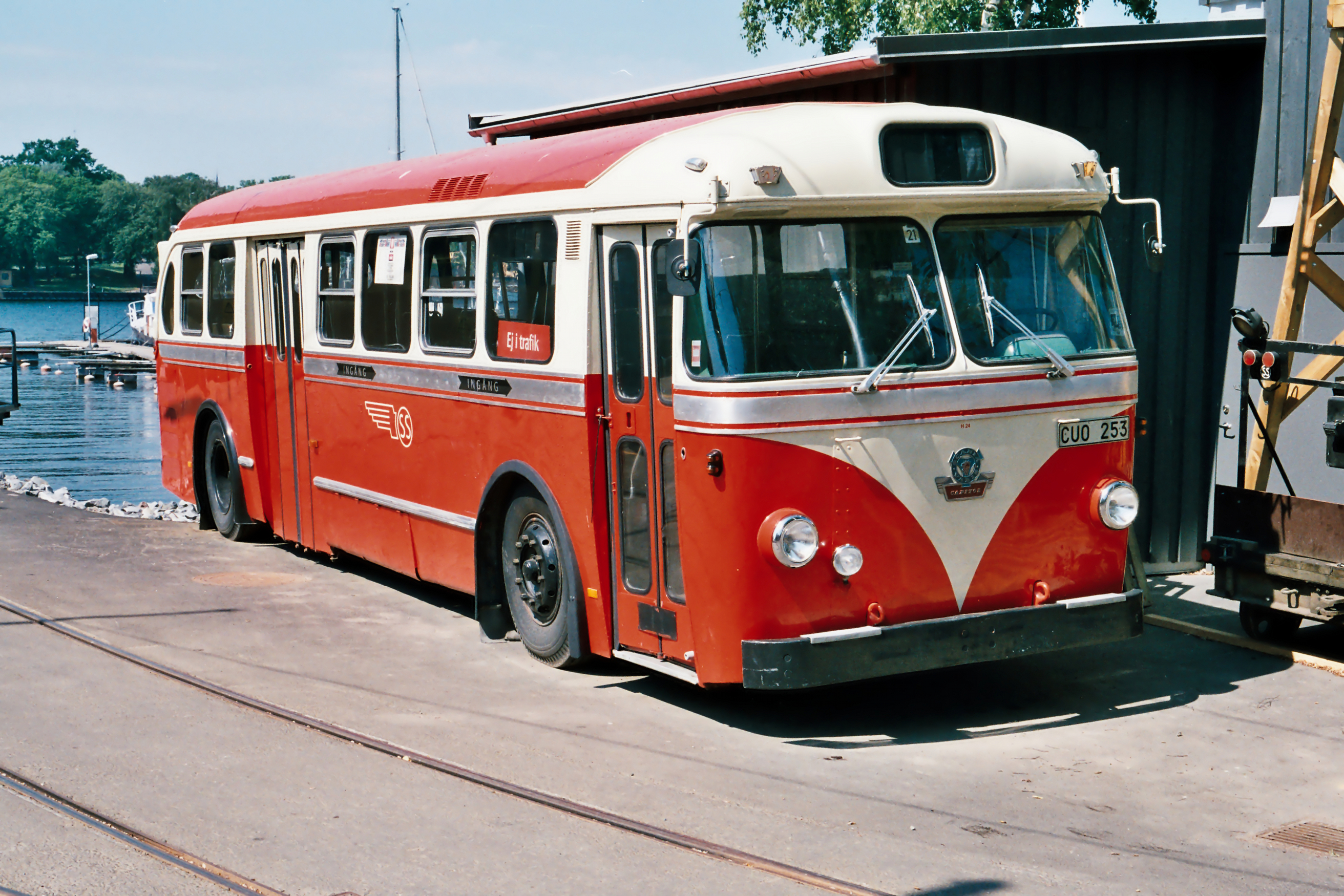 1962 Scania-Vabis Capitol.